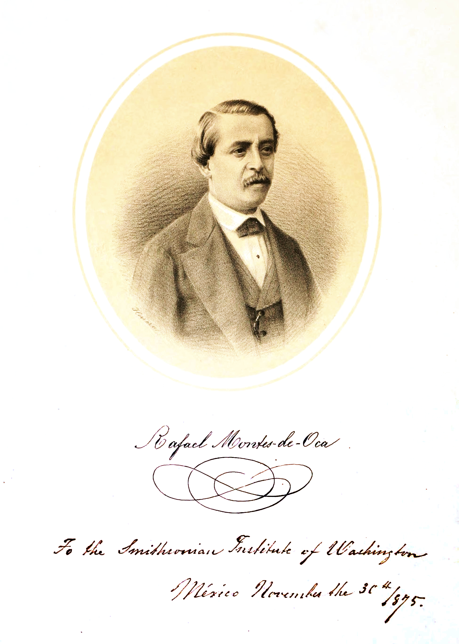 Rafael Montes de Oca mexican artist, ornithologist and botanist